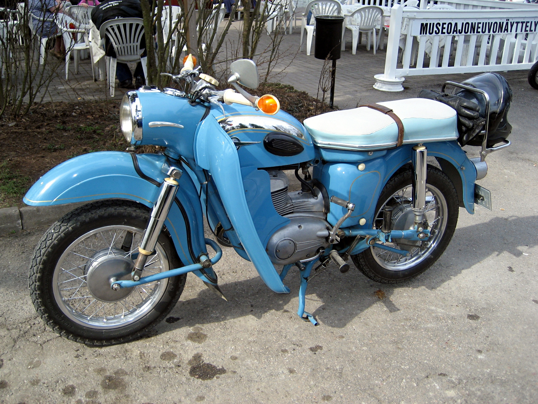 A single cylinder two-stroke MZ ES 250 motorcycle, made in German Democratic Republic.